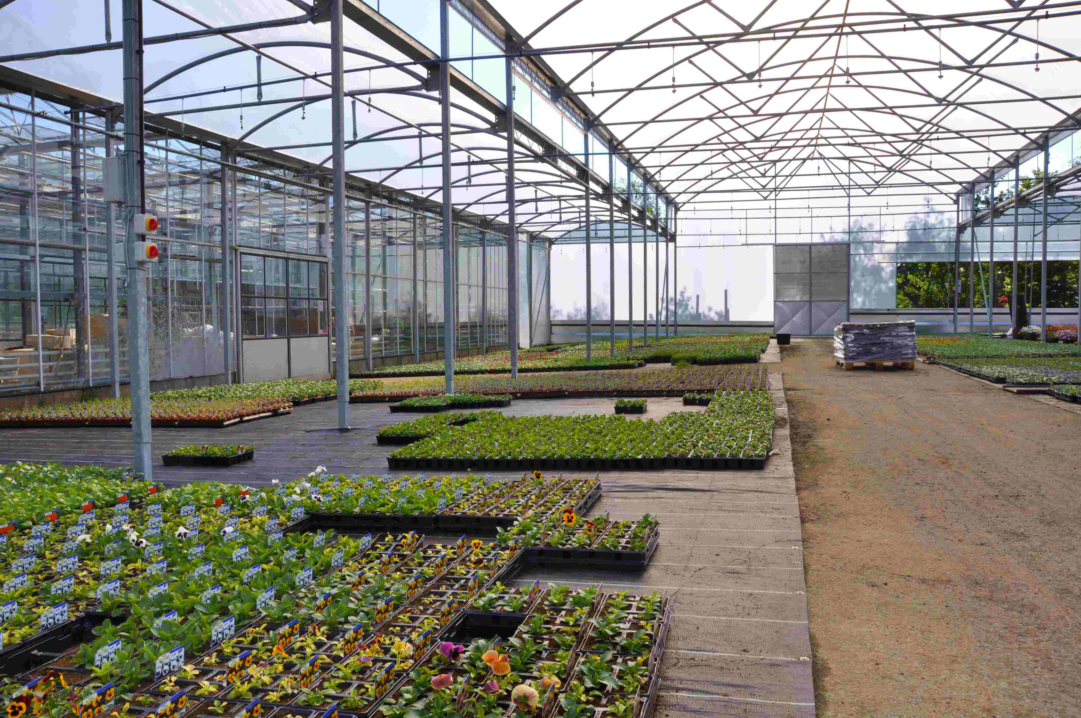 High sided Polytunnel